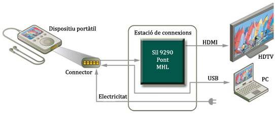 bridge